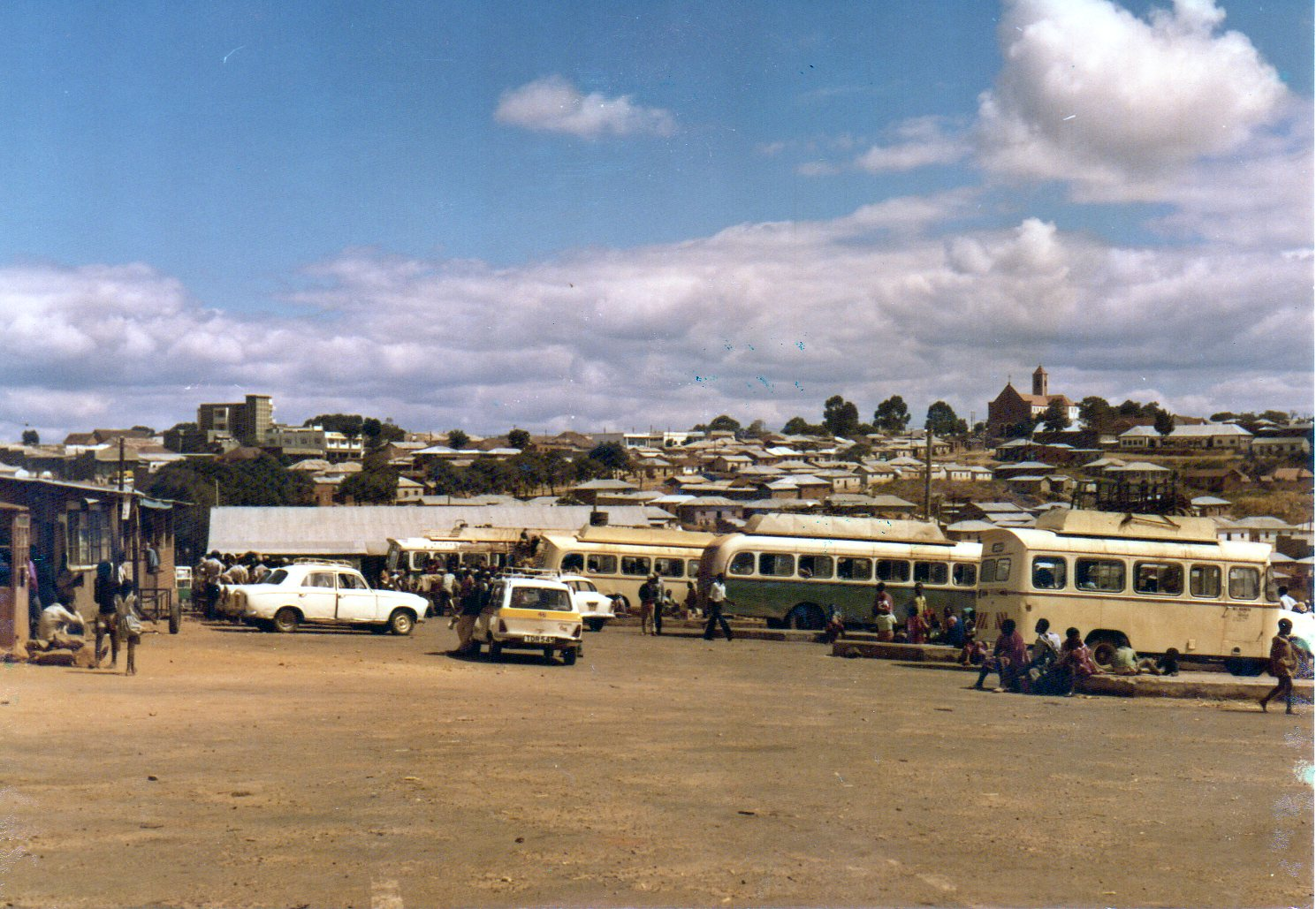 Bus depot, Iringa city, Tanzania